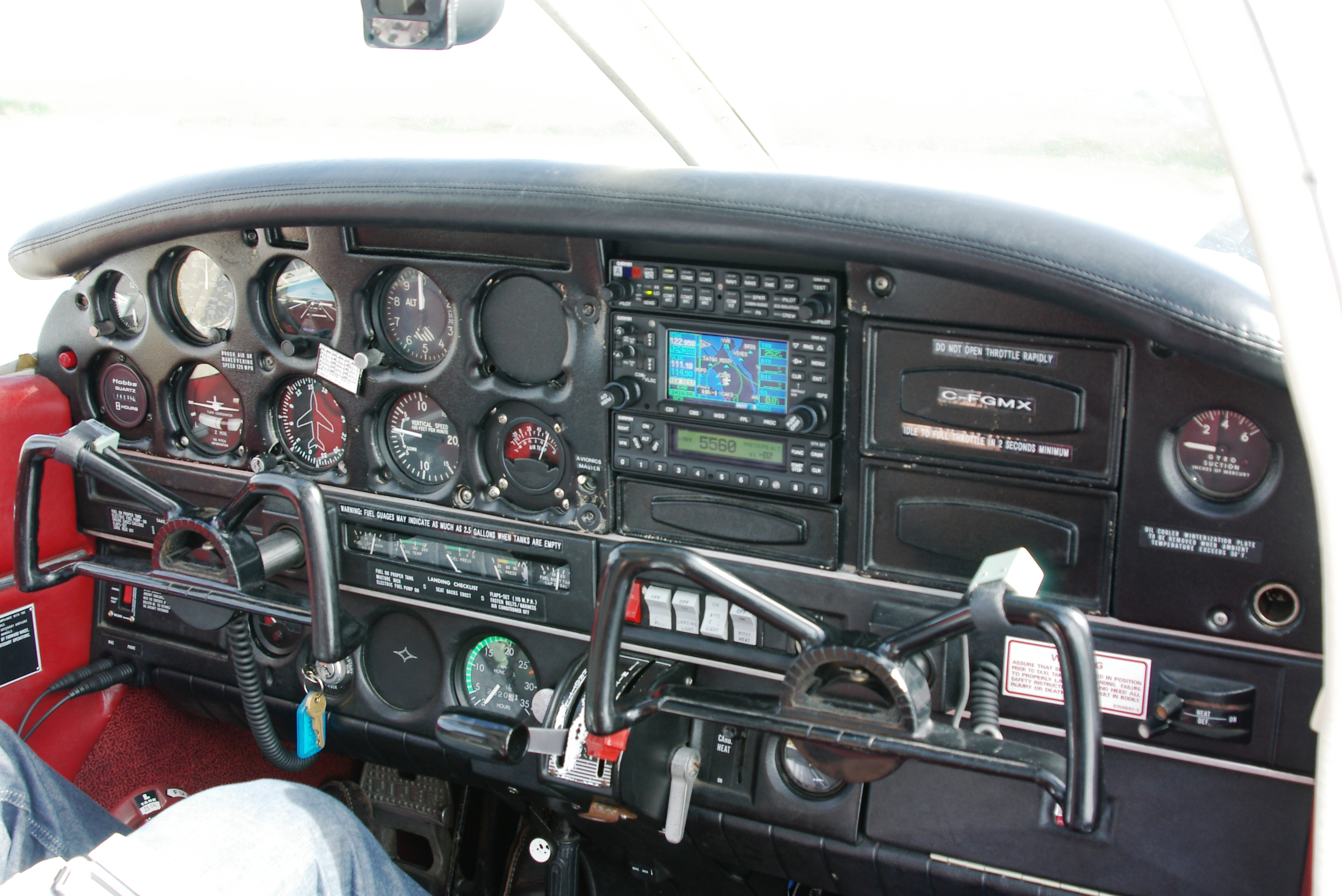 Instrument panel of Piper Cherokee